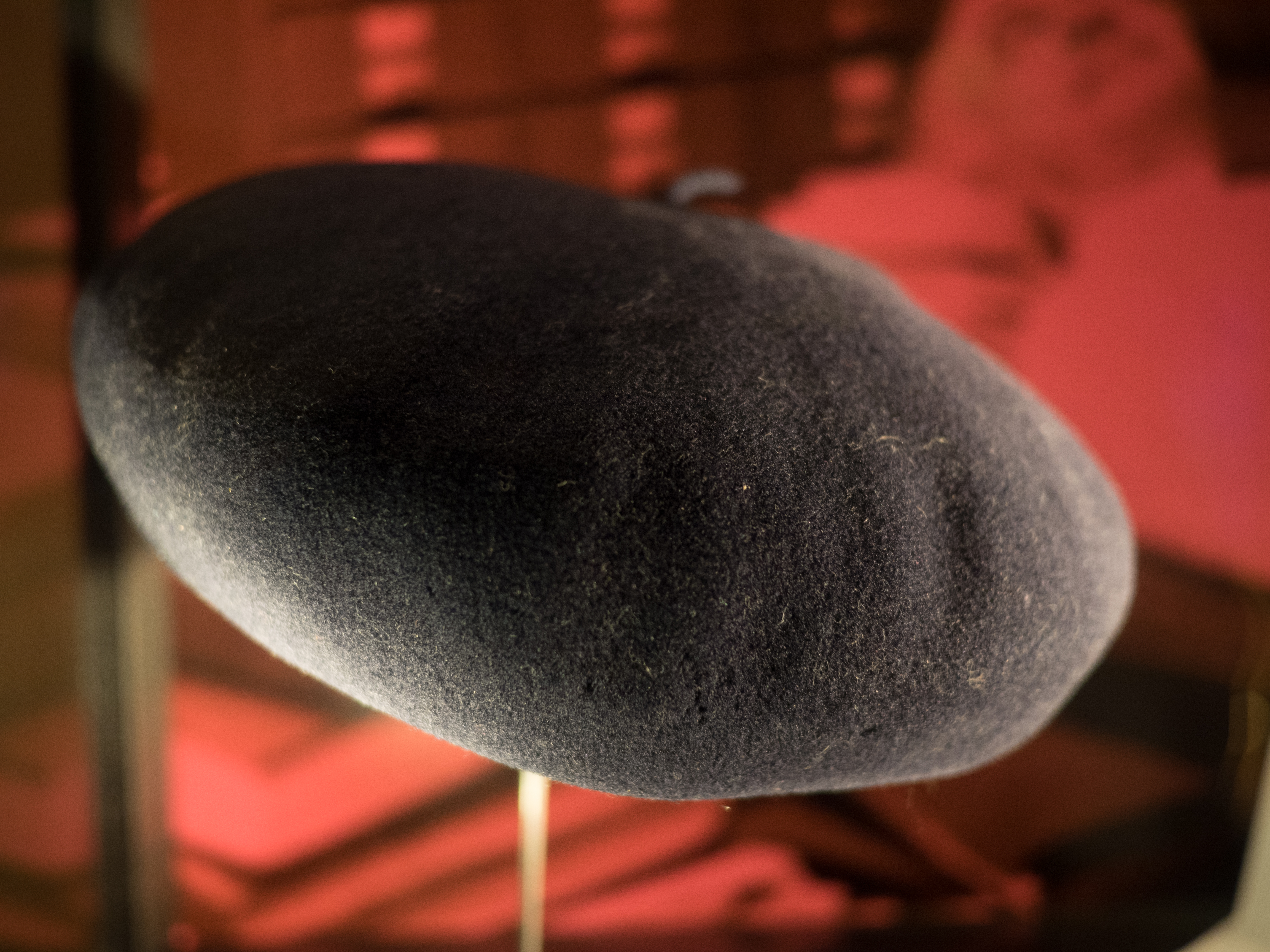 Linus Pauling's beret at the Nobel Museum in Stockholm